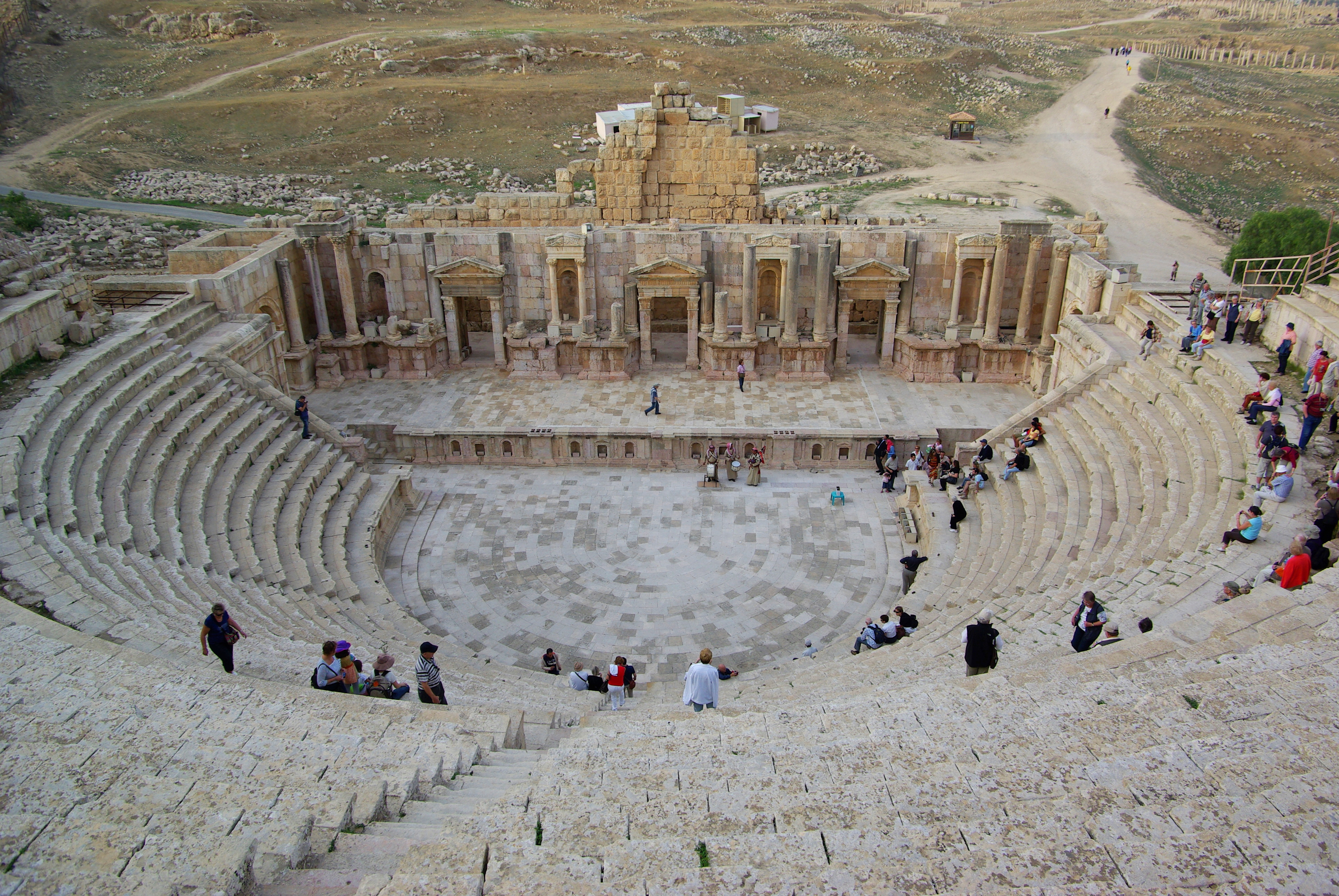 Jerash, South theater